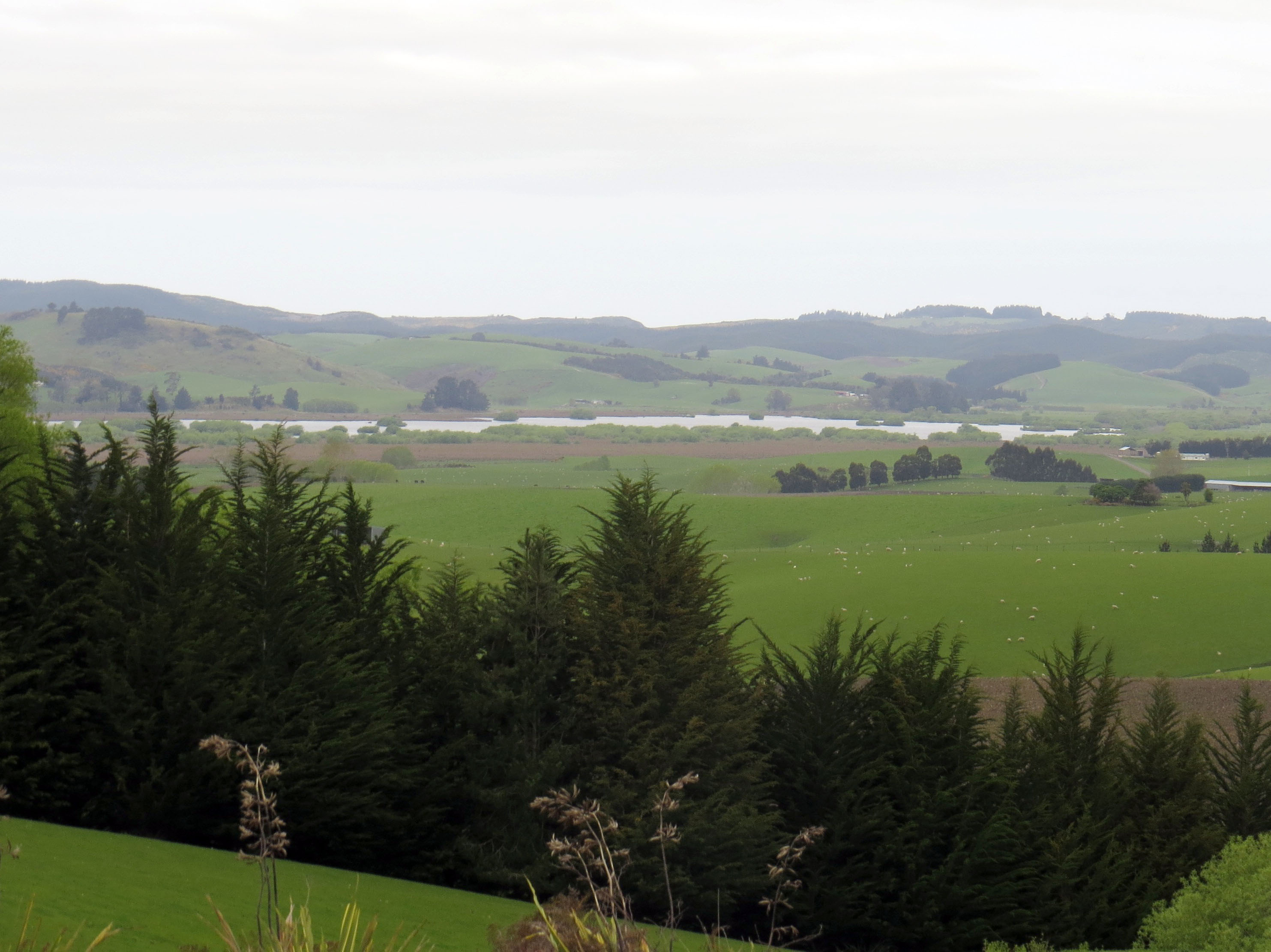 Lake Tuakitoto, in Otago, New Zealand, seen from State Highway 1, 4km to the northwest